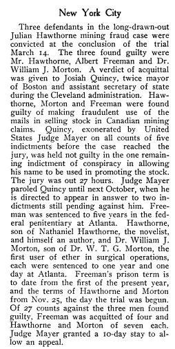 Article from Mining Science, April 1913, briefly recounting the conviction of Julian Hawthorne, Albert Freeman, and William J. Morton for mail fraud.